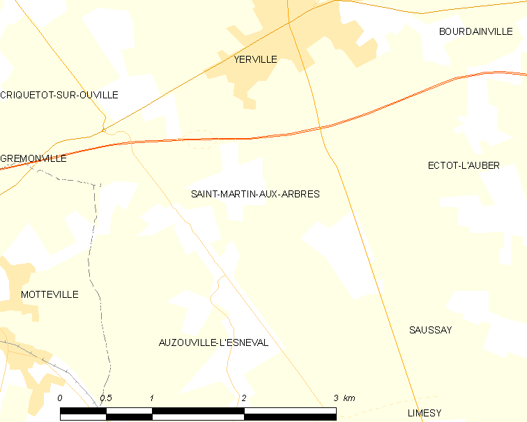 Map of French municipality Saint-Martin-aux-Arbres